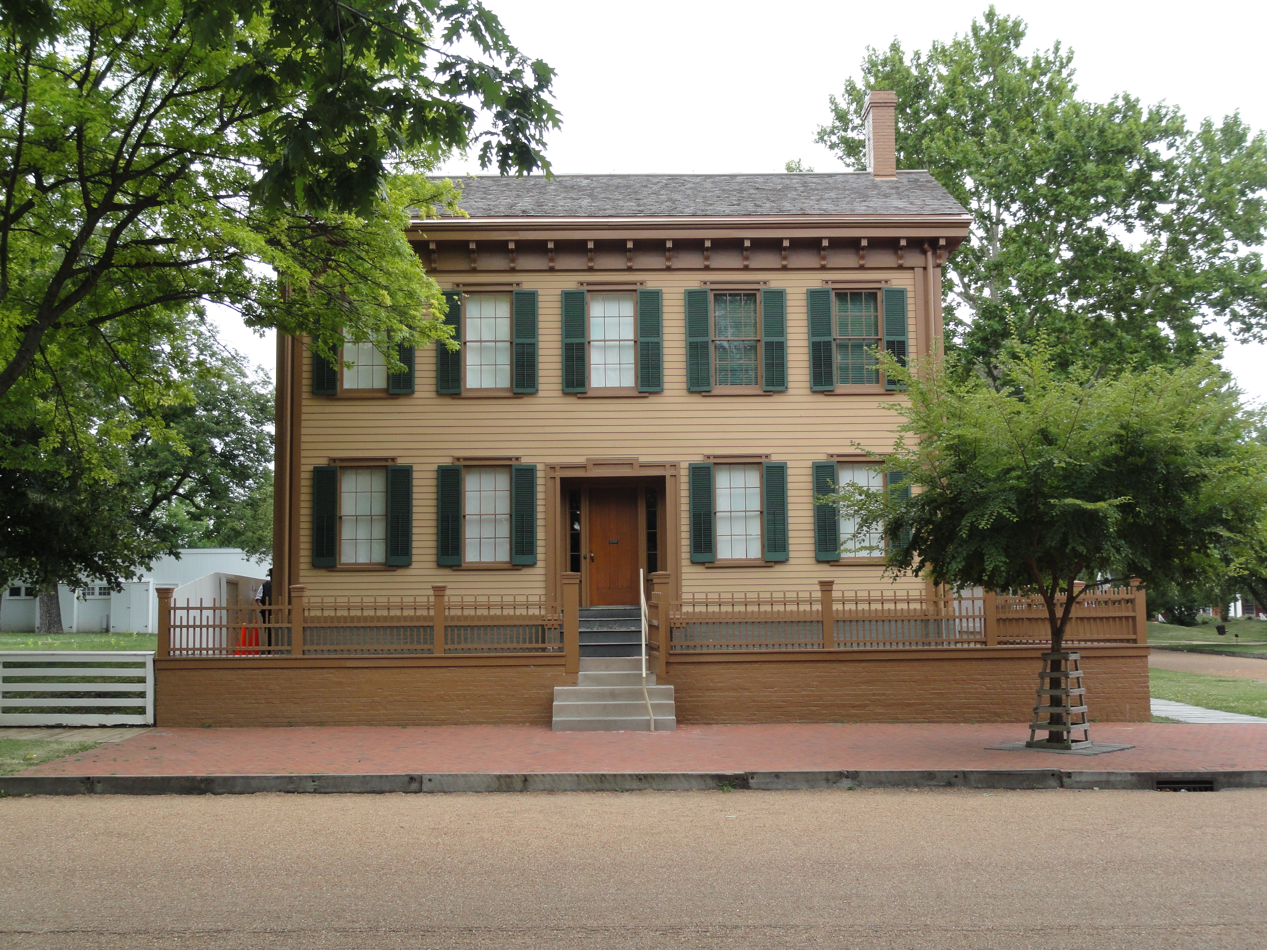 Lincoln Home National Historic Site